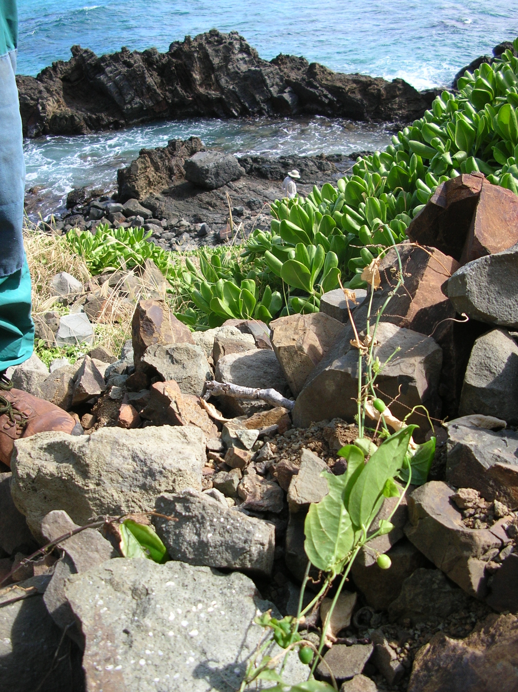 Passiflora suberosa (habit). Location: Oahu, Mokulua South